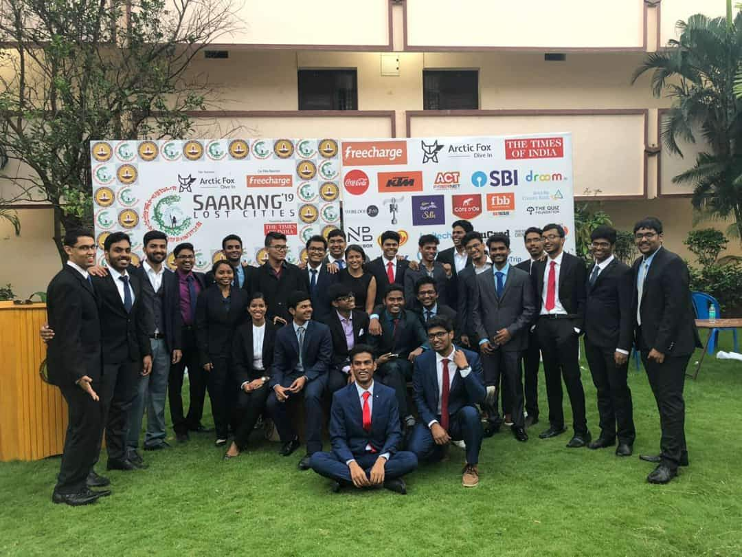 The peoples behind the success of saarang